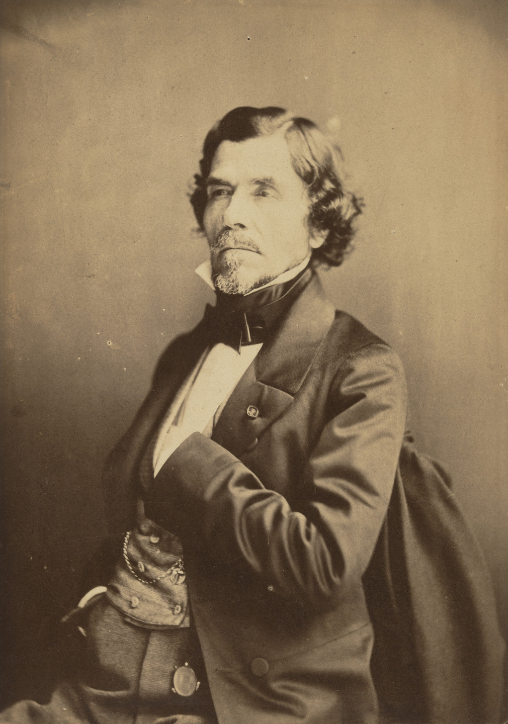 Photography of Eugène Delacroix by Félix Nadar